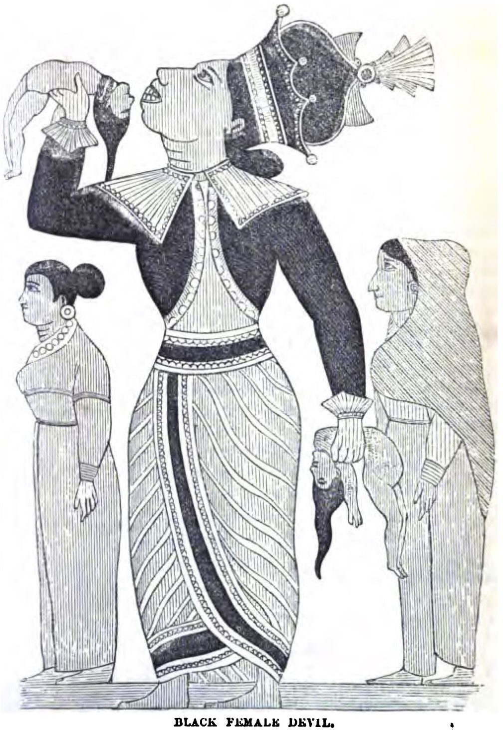 Black Female Devil (April 1852, p.36, IX)